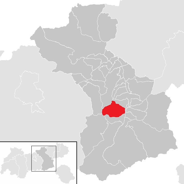 District Schwaz